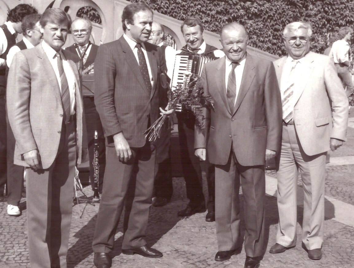 During a demonstration against nuclear energy at Schweinfurt in the eighties: MP Rudolf Müller, district administrator Hans Schuierer, member of state parliament Werner Hollwich, deputy mayor Herbert Müller